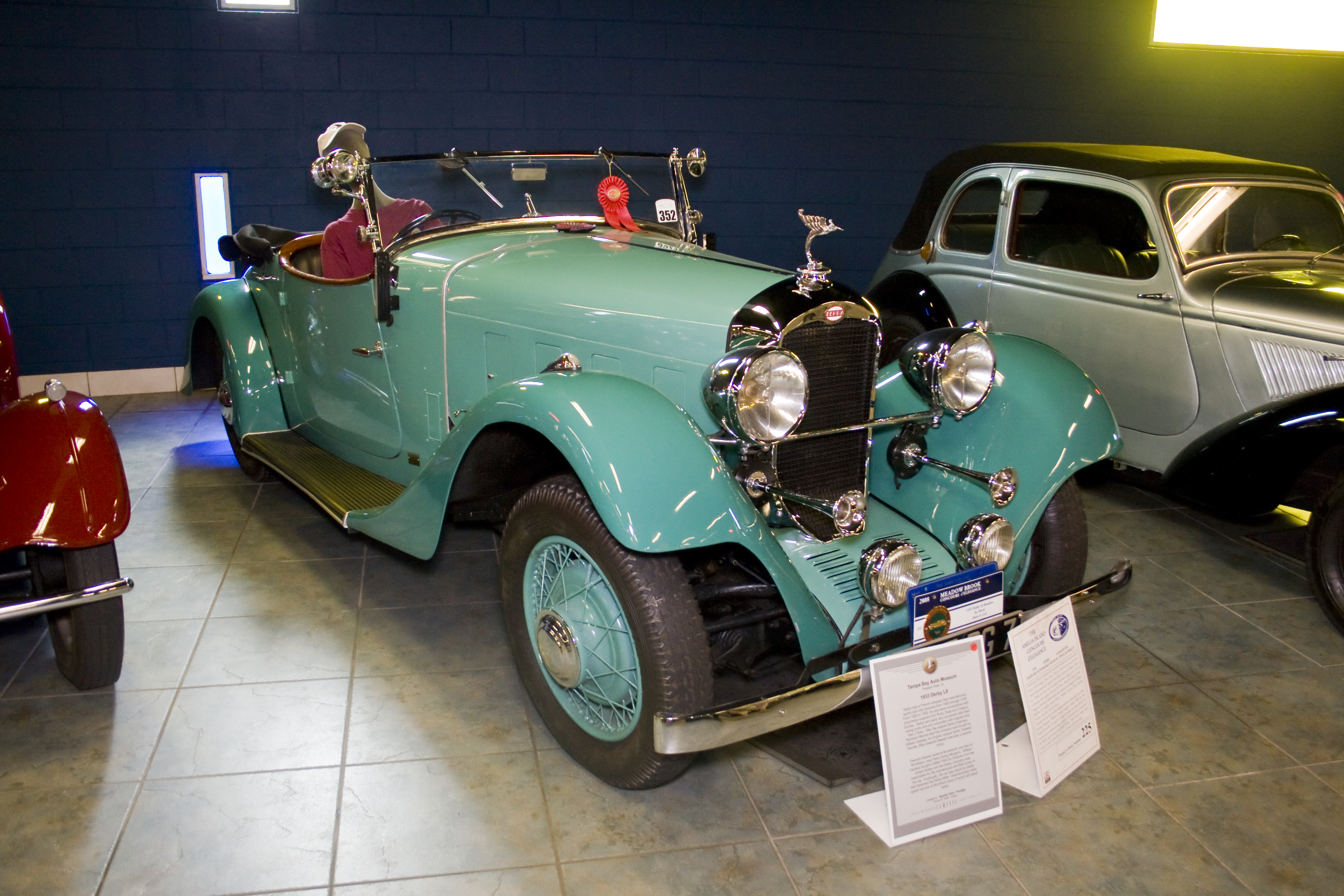 1933 Derby V8